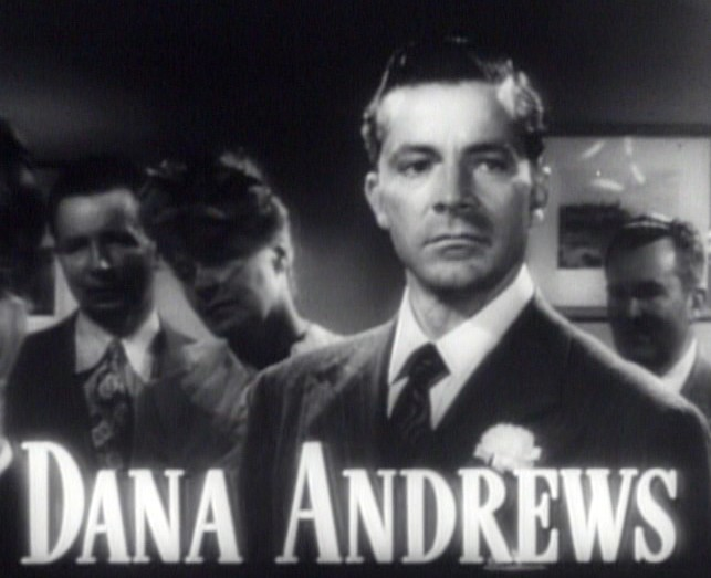 Cropped screenshot of Dana Andrews from the trailer for the film The Best Years of Our Lives.